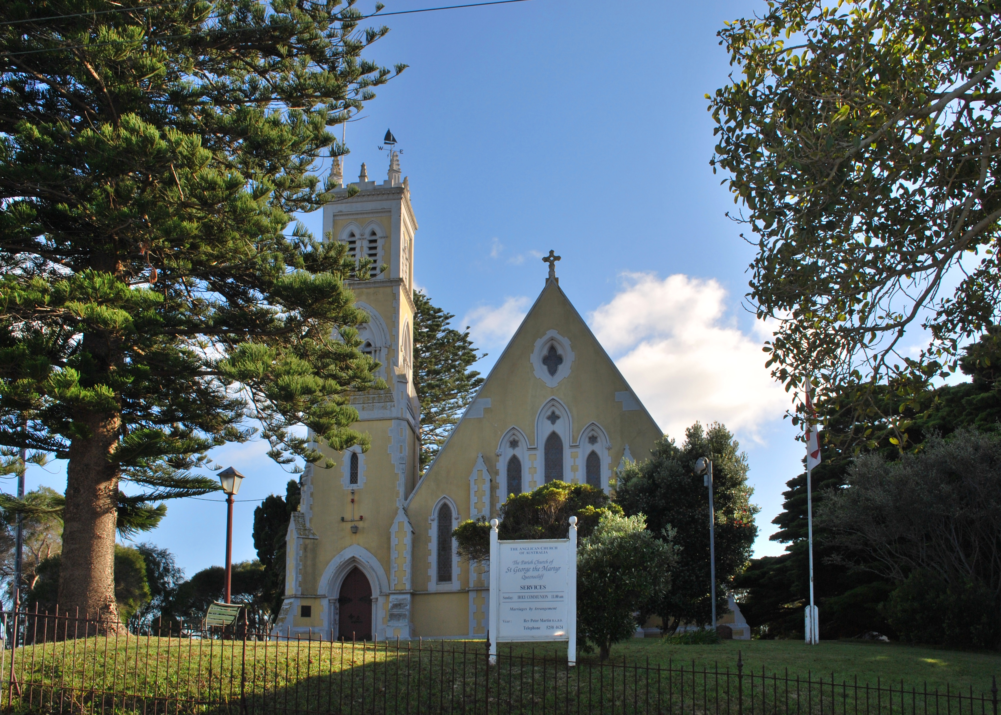 St George's Anglican church at Queenscliff, Victoria